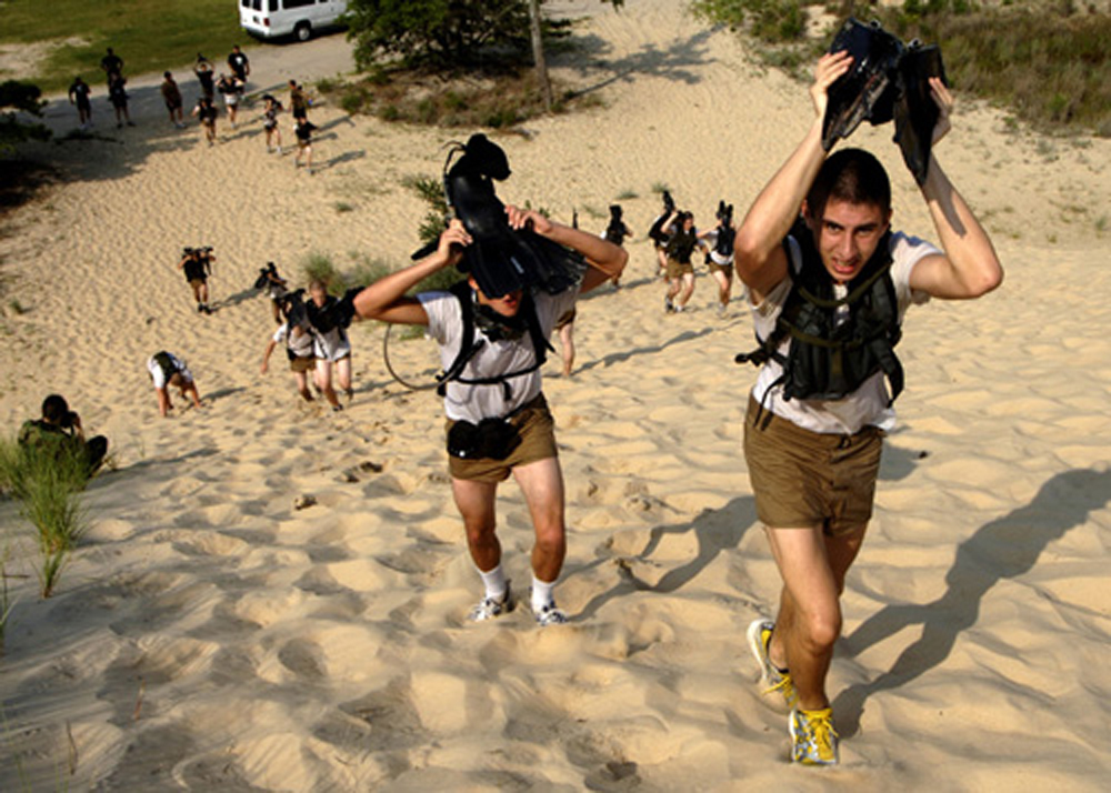 U.S. Naval sea cadets climb a steep hill of sand at Fort Story, Va. after swimming two miles up the coastline during explosive ordnance disposal (EOD)/dive training